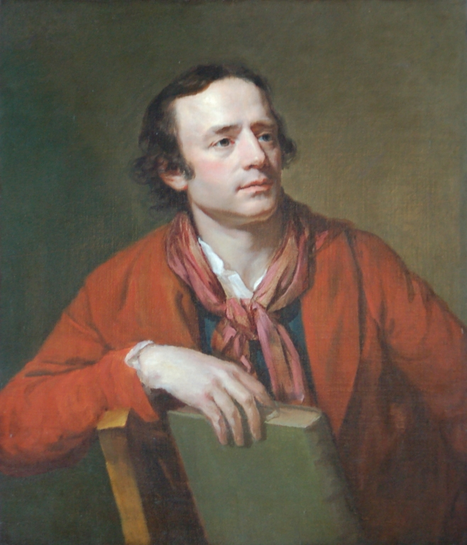 Photographic version of the portrait of Col Isaac Barré on display in the Library at Bowood House. Bowood — is a stately Georgian country house and landscape gardens of the Marquis and Marchioness of Lansdowne. Interiors designed by Robert Adam in the 18th Century. English landscape gardens designed by Lancelot "Capability" Brown.